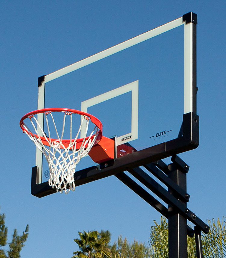 Lifetime Basketball Hoop